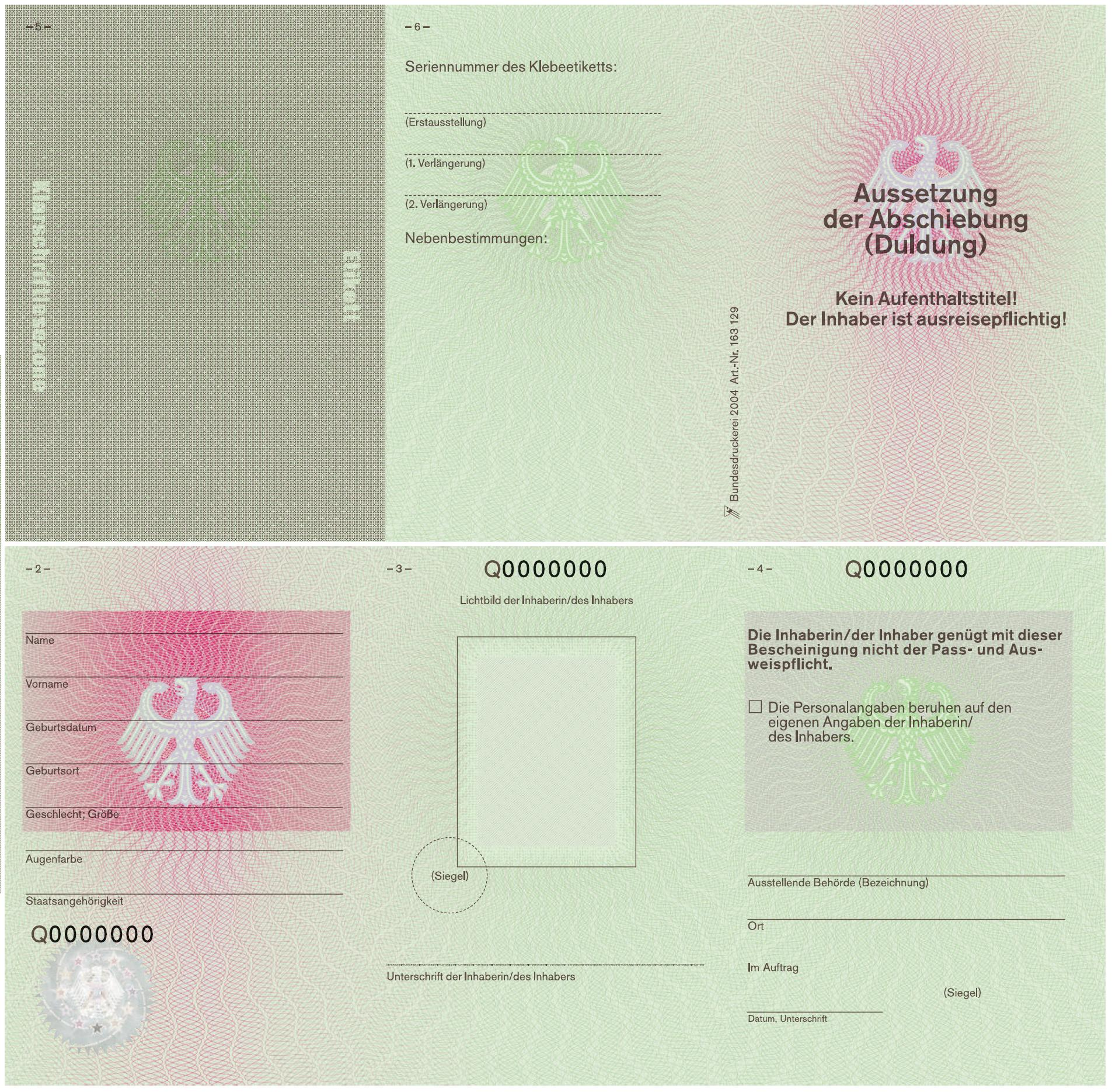 Suspension of deportation (basic form) for foreigners in Germany